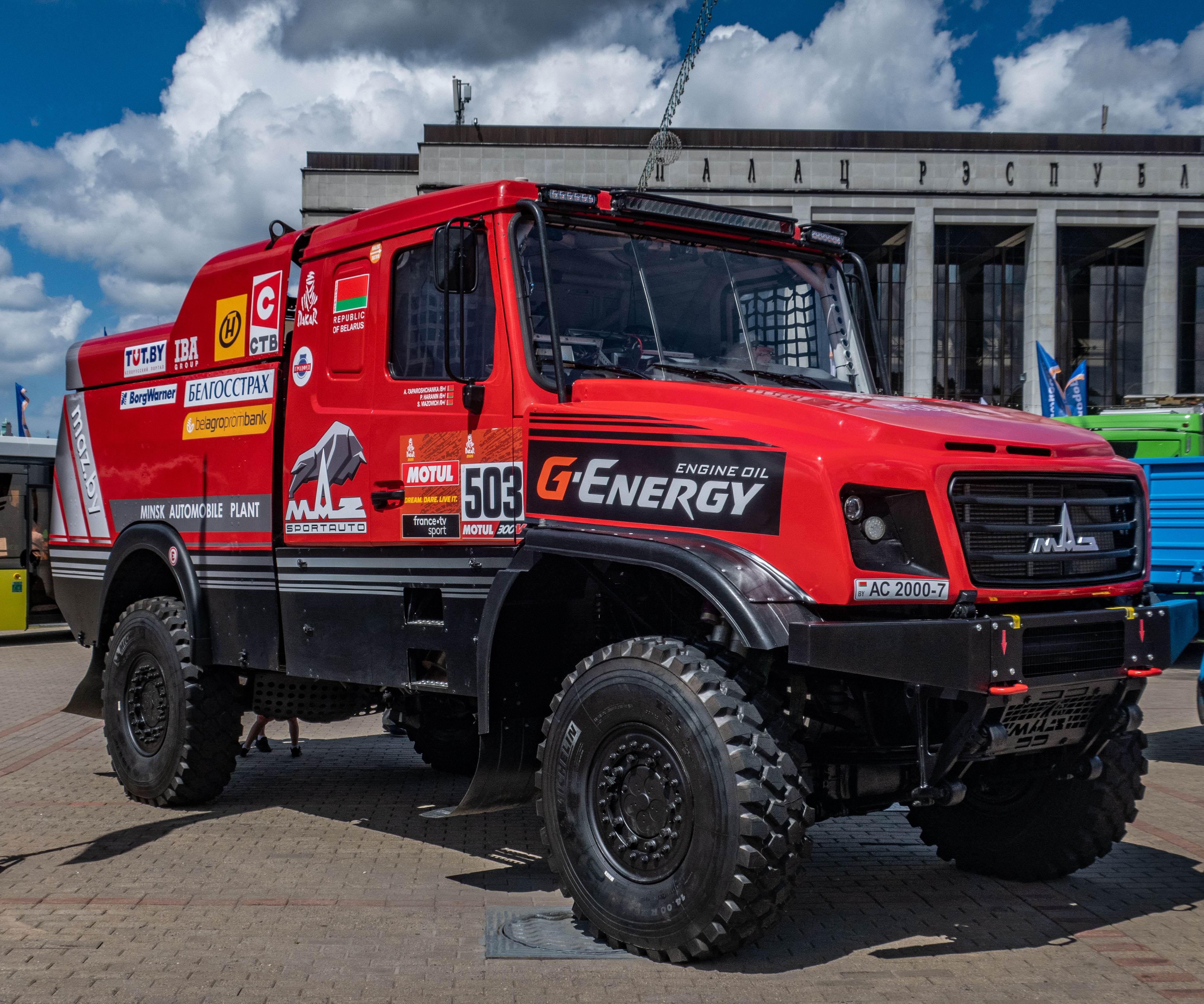 MAZ-6440RR rally vehicle. Minsk, Belarus